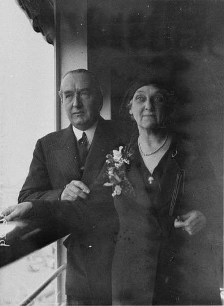 Stanley and Ethel Bruce arriving in England, 1930s